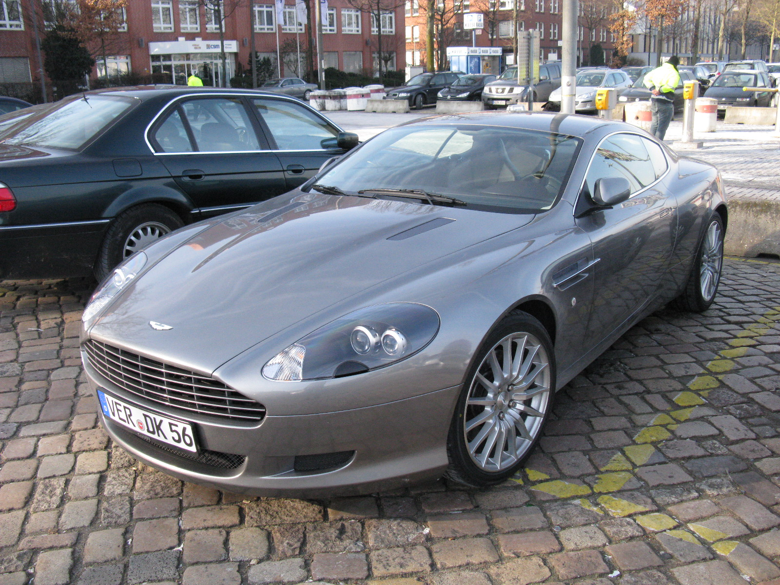 Aston Martin DB9